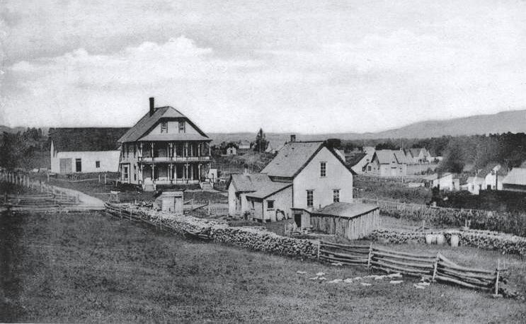 Print (photomechanical), New Richmond Station, Gaspé, QC, about 1910, Ink on paper mounted on card - Collotype - 8.8 x 13.8 cm